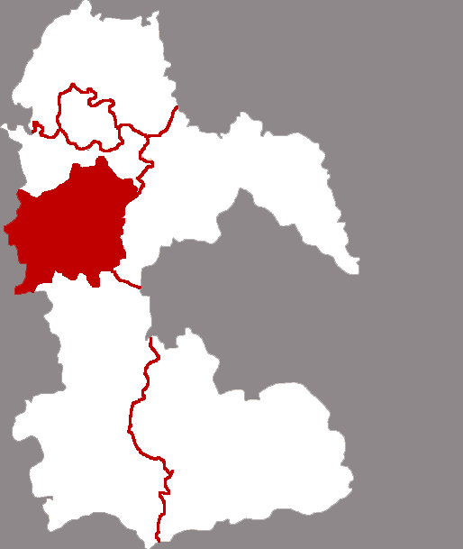 Location of Naxi District in Luzhou City, China